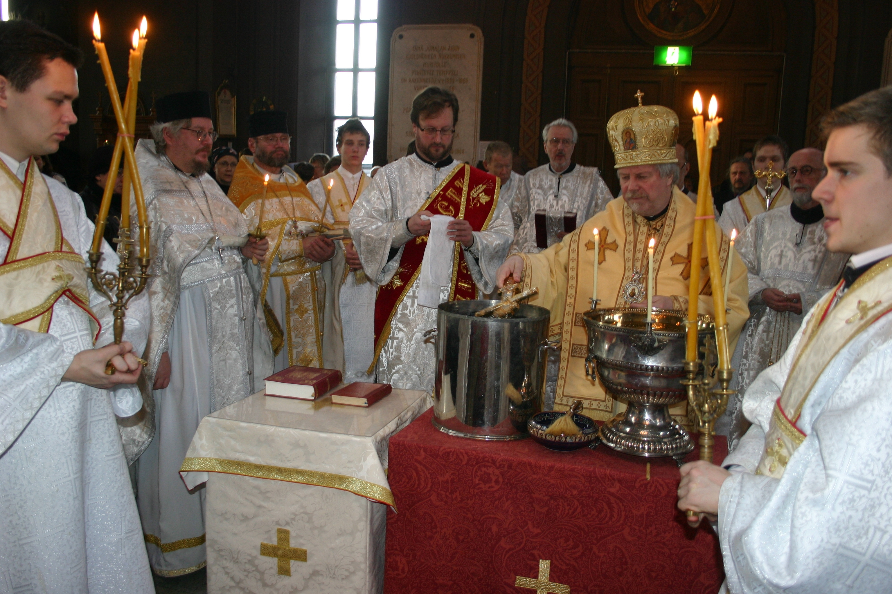 Blessing of the holy water at Uspenski cathedral